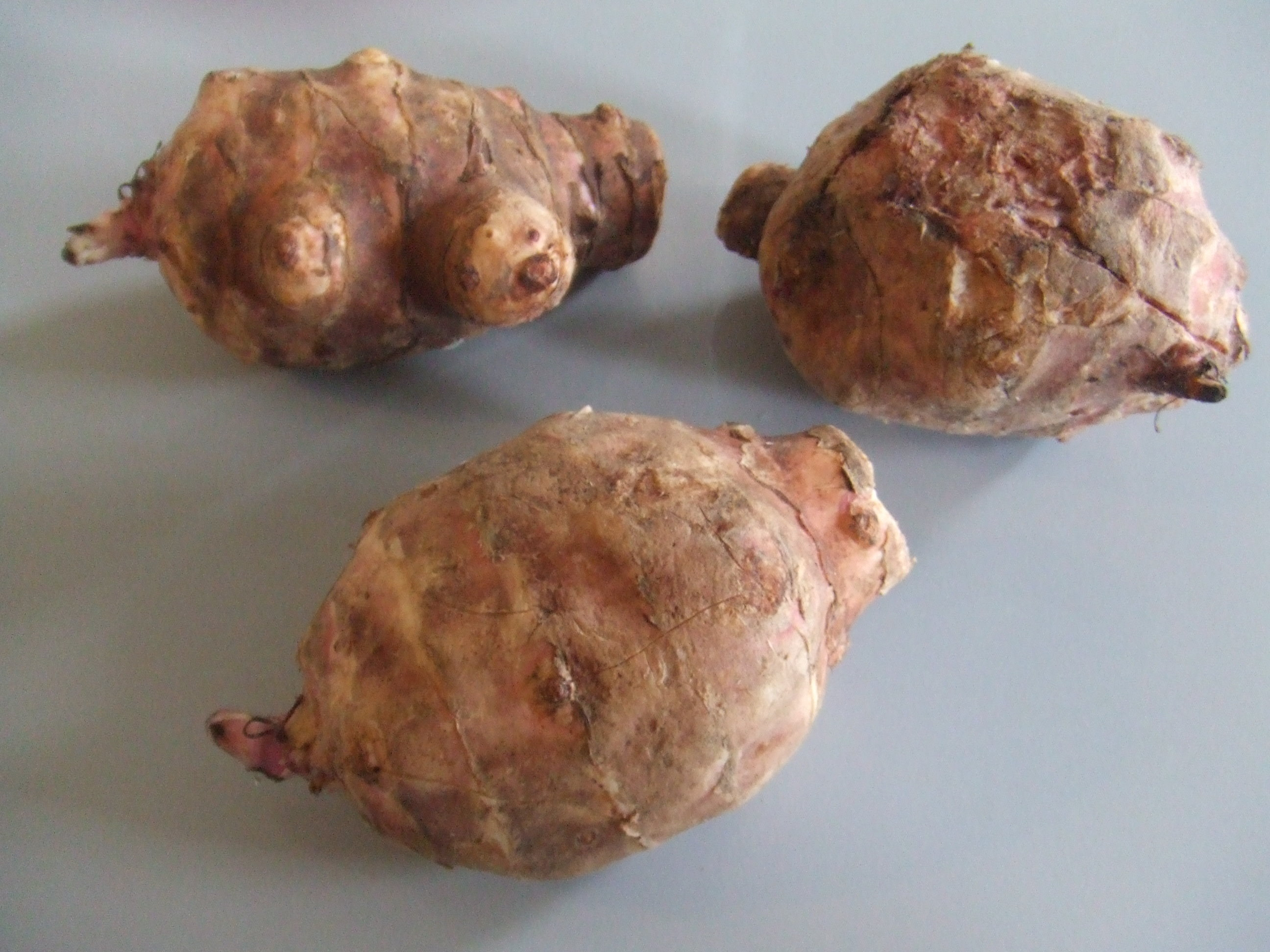 Helianthus tuberosus, bought at the Binnenrotte-markt in Rotterdam, The Netherlands